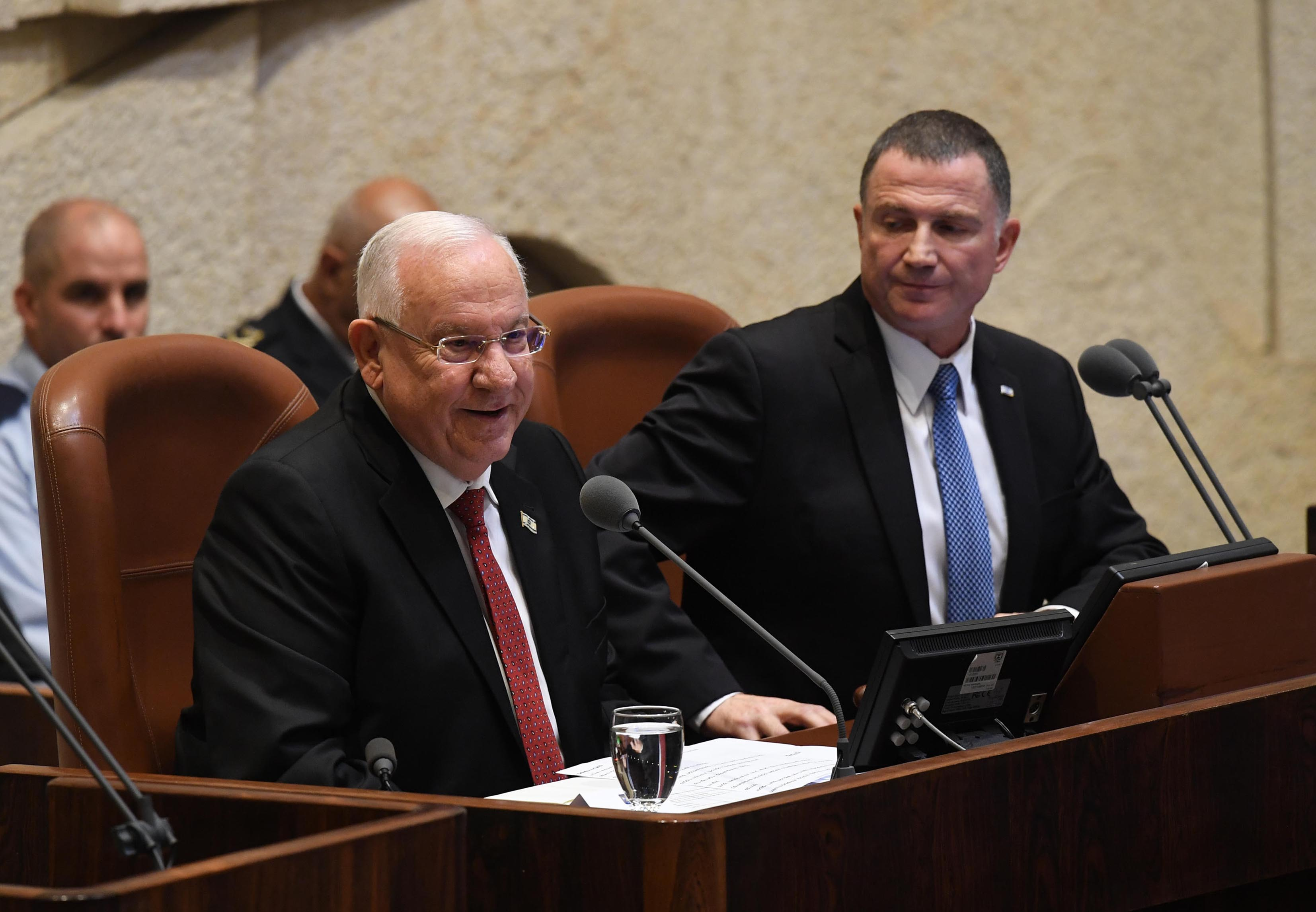 Reuven Rivlin at the beginning of the fourth Knesset session of the Twentieth Knesset, October 2017.